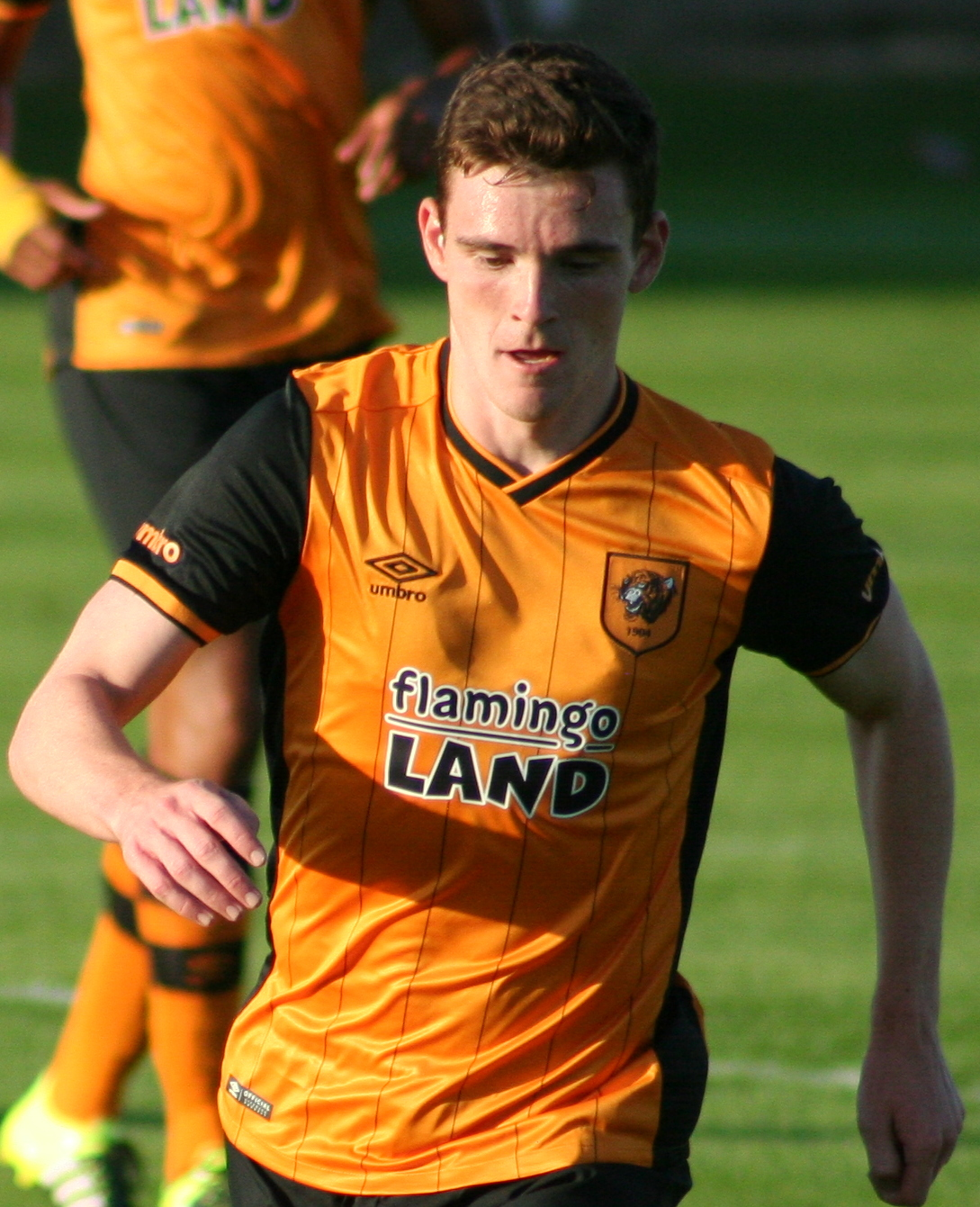 Andy Robertson playing for Hull City in 2015